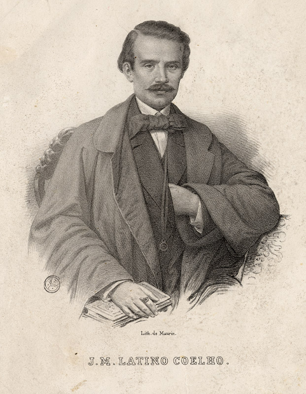 Lytograph of José Maria Latino Coelho (1825-1891), a Portuguese politician and writer.